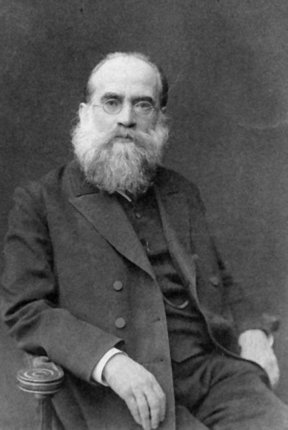 Portrait of Leo Lopatin (1855-1920), Russian philosopher